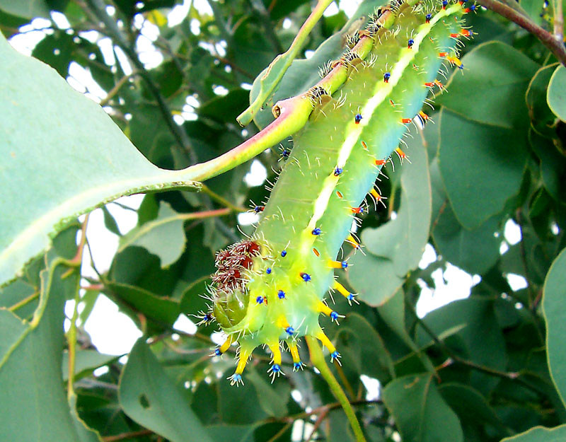 The Emperor Gum Moth (Opodiphthera eucalypti) caterpillar at the 5th development stage, distinguished from 4th stage by its green underside Taken by fir0002